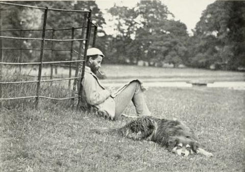 Edward FitzGerald: an aftermath (1902) Author: Groome, Francis Hindes, 1851-1902; Mosher Press; FitzGerald, Edward, 1809-1883; Hay, John, 1838-1905; Watts-Dunton, Theodore, 1832-1914; Groome, Robert Hindes, 1810-1889; Clodd, Edward, 1840-1930 Subject: FitzGerald, Edward, 1809-1883 Publisher: Portland, Me., T. B. Mosher Possible copyright status: NOT_IN_COPYRIGHT Language: English Call number: nrlf_ucb:GLAD-67192342 Digitizing sponsor: MSN Book contributor: University of California Libraries Collection: americana; cdl